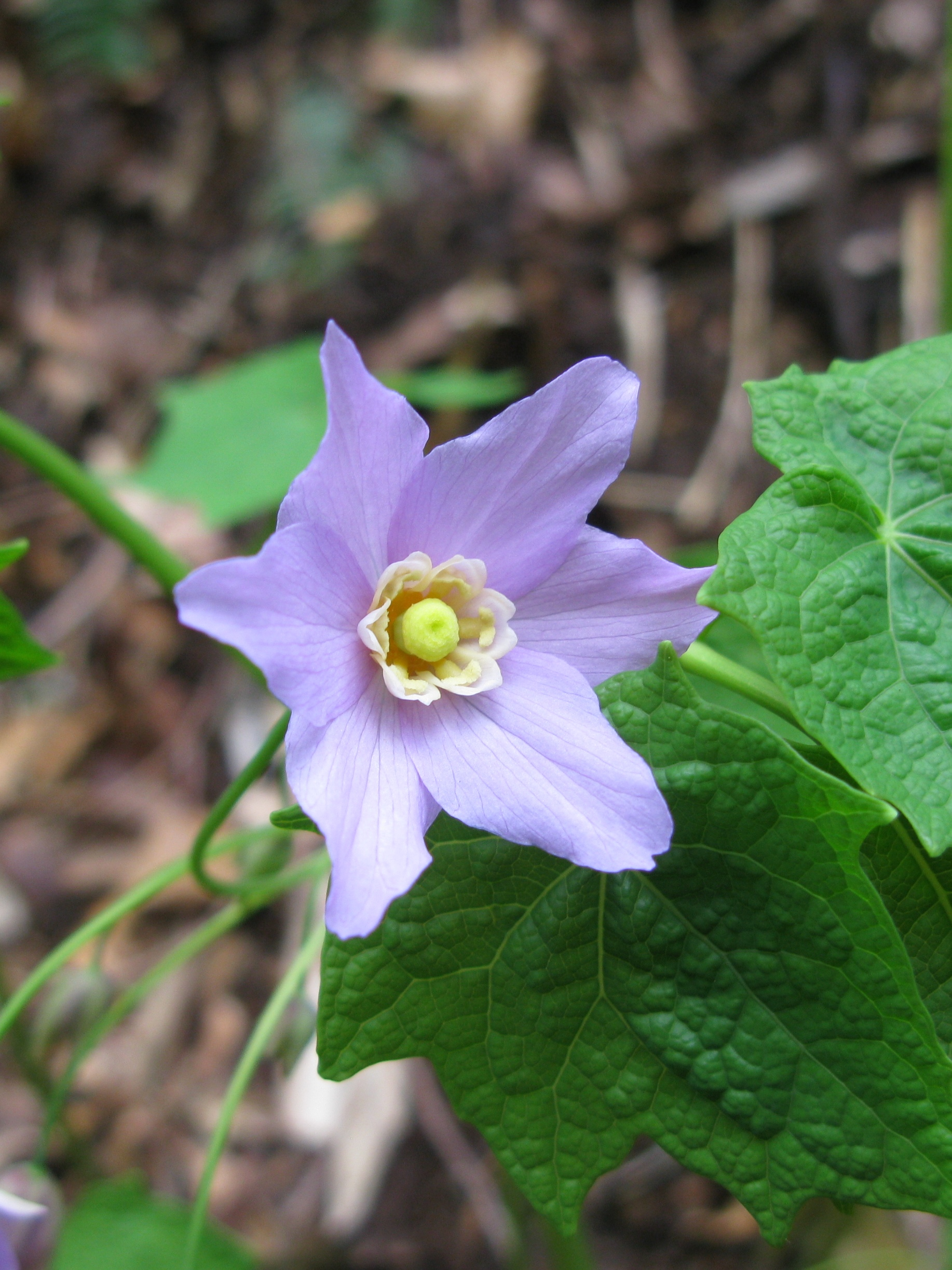 Ranzania japonica, Oze, Fukushima pref., Japan